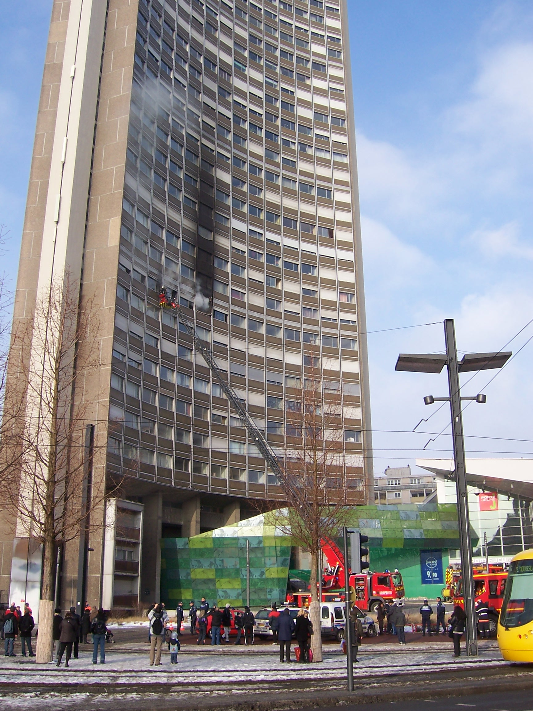 Fire at the Tour de l'Europe, in Mulhouse (France), the 16 January 2010.